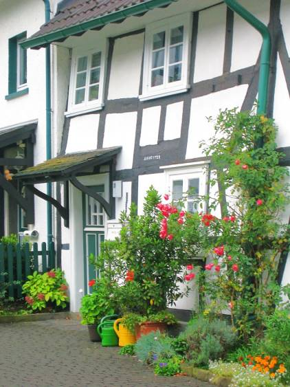 The eldest house in Bruch (1728), municipality Nümbrecht. - Das älteste Haus in Bruch 1728 (Haus Bitzer) Gemeinde Nümbrecht. Author mrfinch Time of creation 29 Oct. 2004 Licence GNU FDL and CC-by-SA Camera Canon S 45